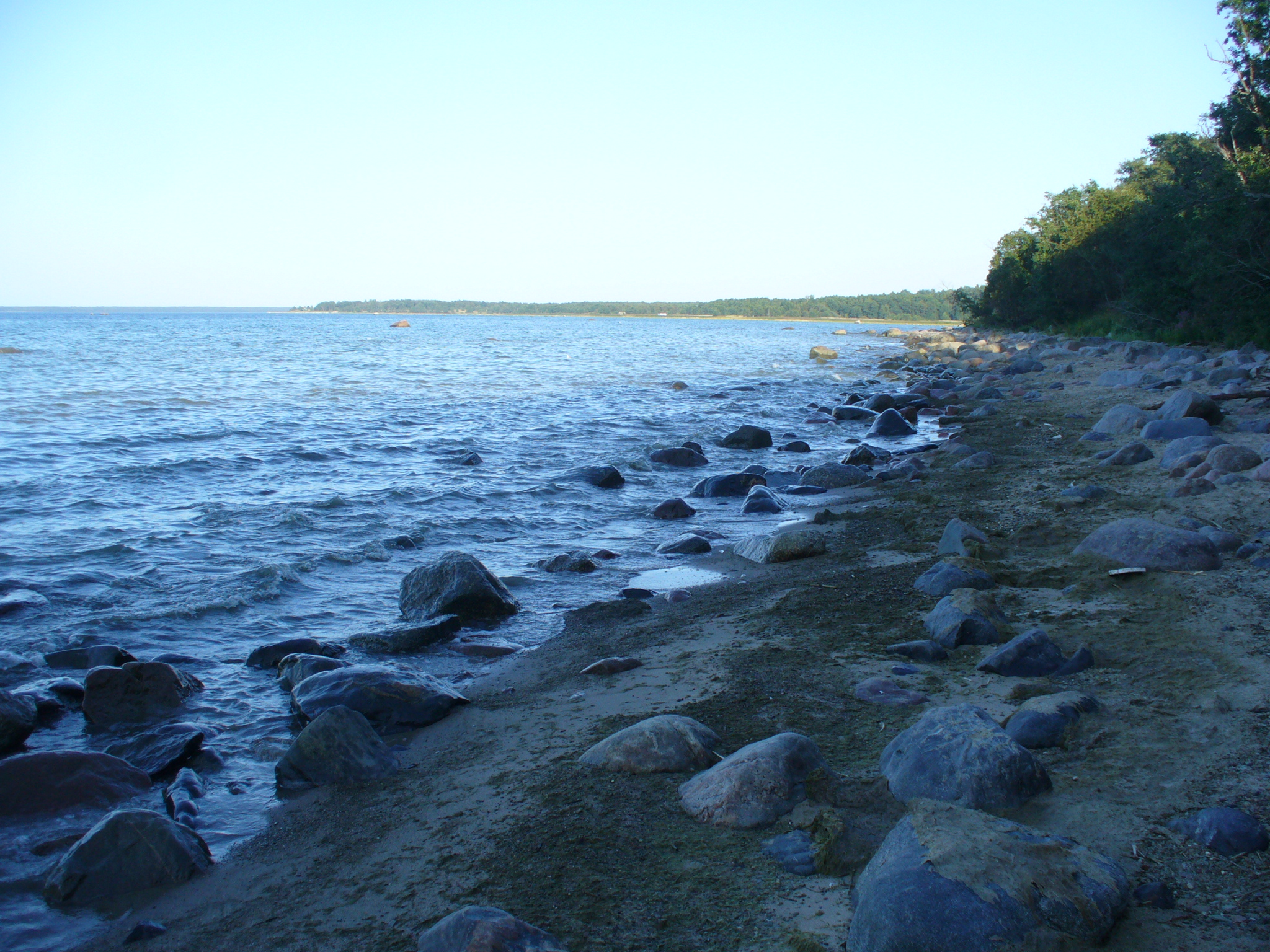 Saviranna coast, view to east. Kallavere village (since 2010 Saviranna village), Jõelähtme parish, Harju county, Estonia.